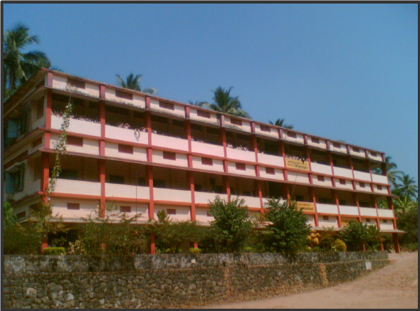 Government UP School, Trikkuttissery